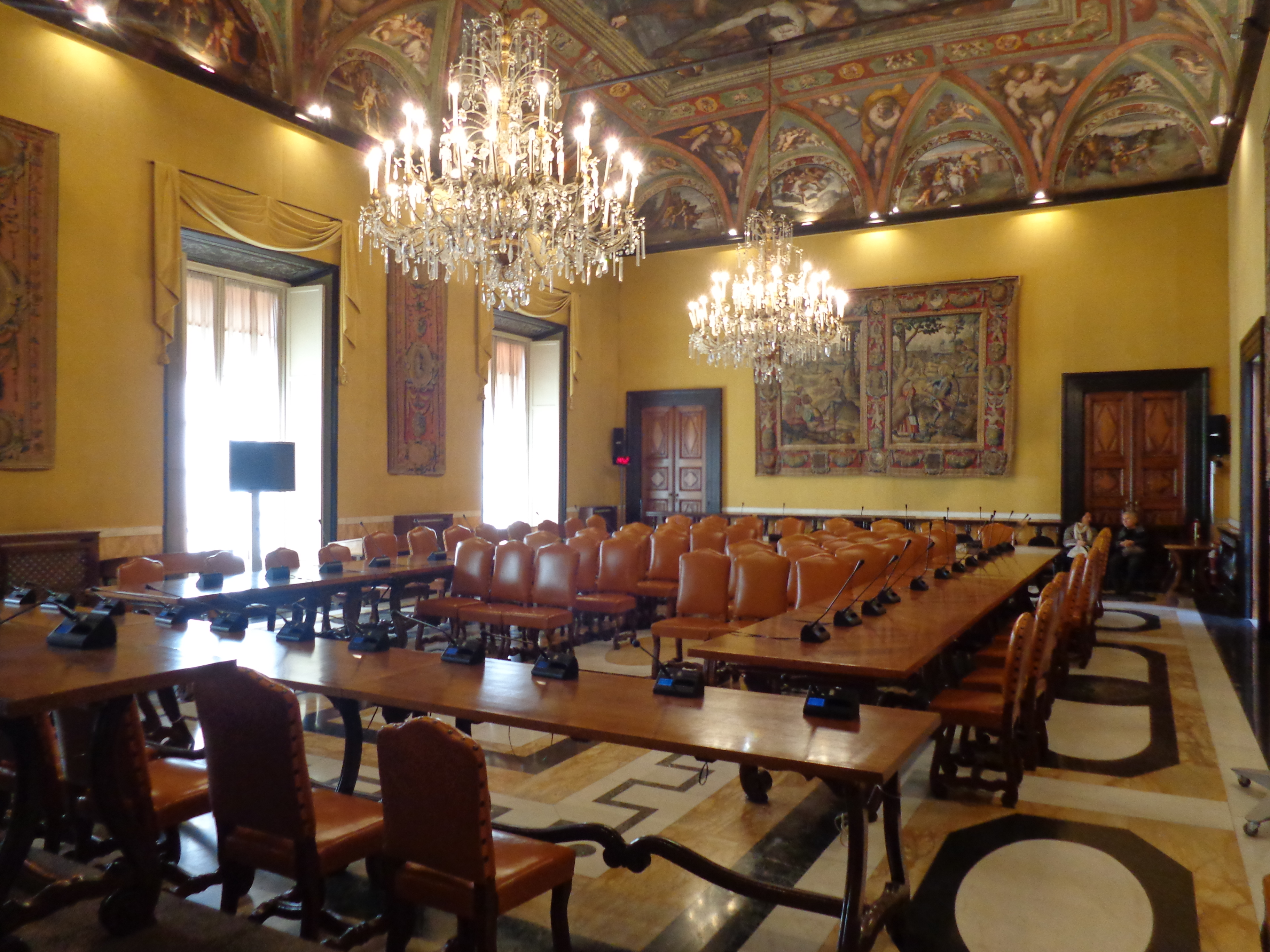 Palazzo Doria Spinola, Genoa